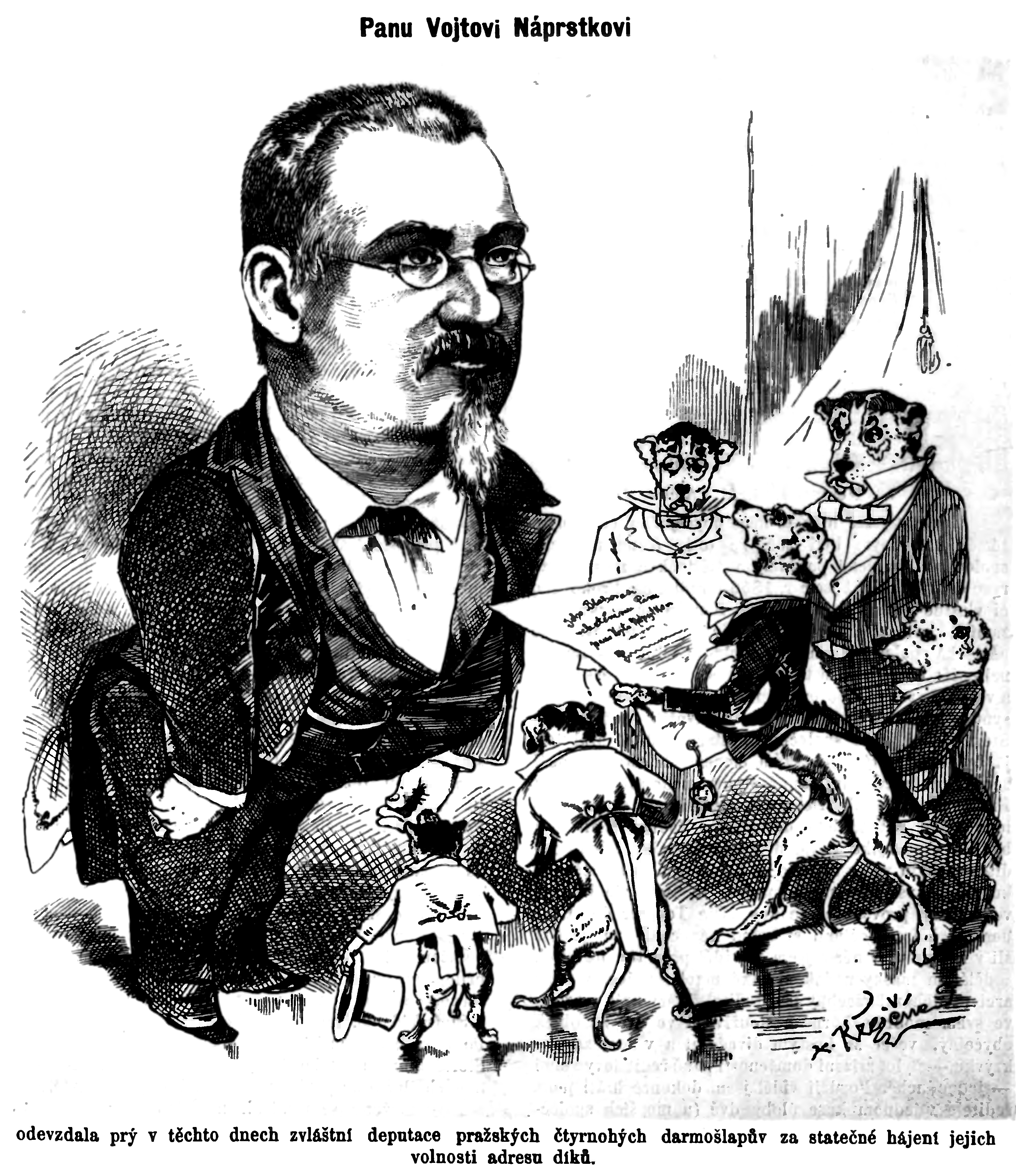 "A delegation of dogs thanks Mr. Vojtěch Náprstek for protecting their liberties." - a cartoon satirizing his effort to repeal a law that required all dog owners in Prague to keep their dogs on a leash (more about it in Národní listy of 31 May 1881 (in Czech)).